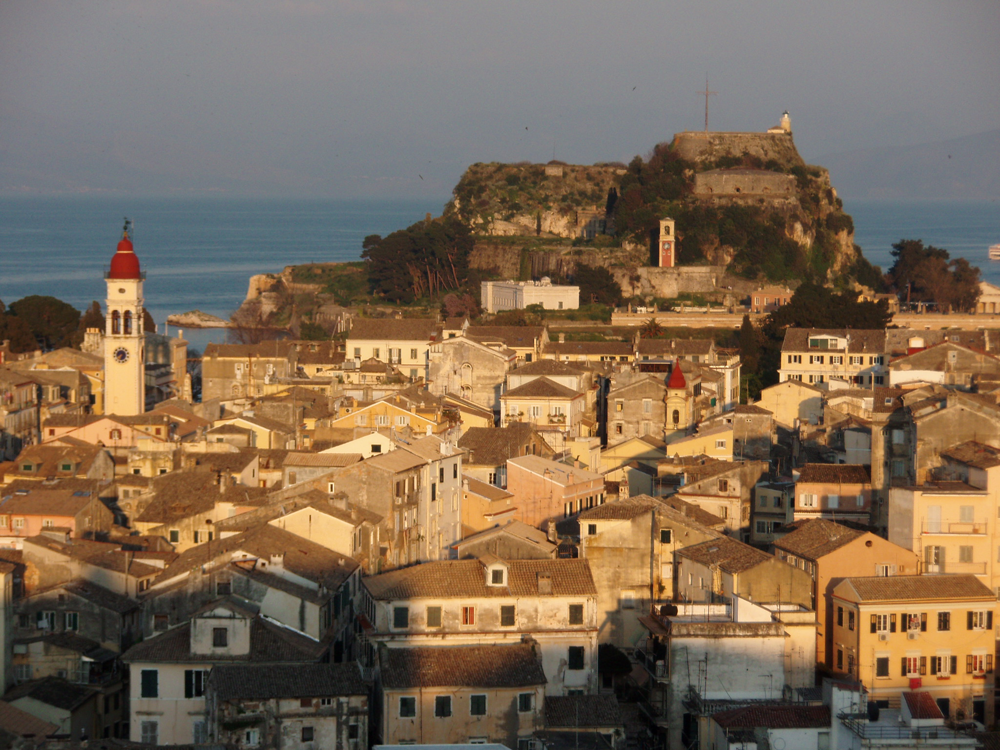 View over the old town of Corfu and the Old Fortress, from the top bastion of the New Fortress.